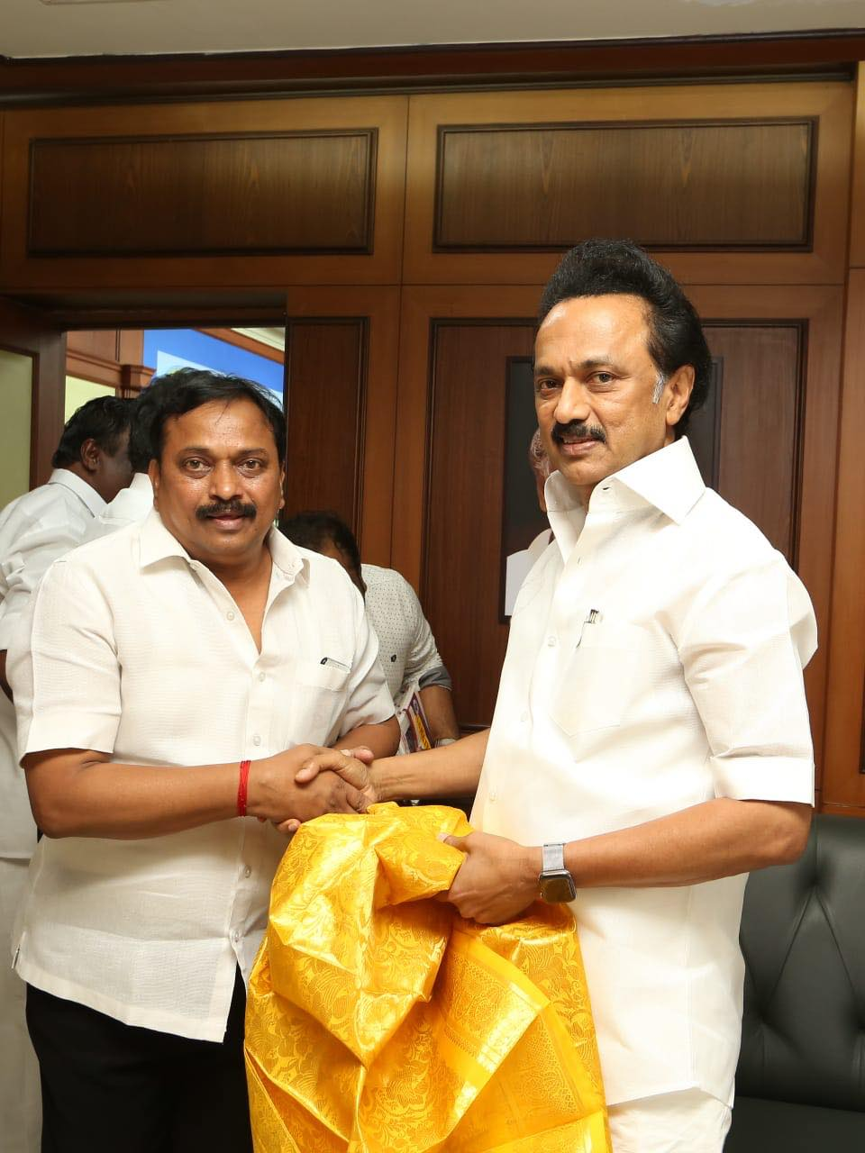 R. D. Sekar is an Indian politician and is Member of the Legislative Assembly of Tamil Nadu. He was elected to the Tamil Nadu legislative assembly as a Dravida Munnetra Kazhagam candidate from Perambur constituency in the by-election in 2019.[1][2][3]